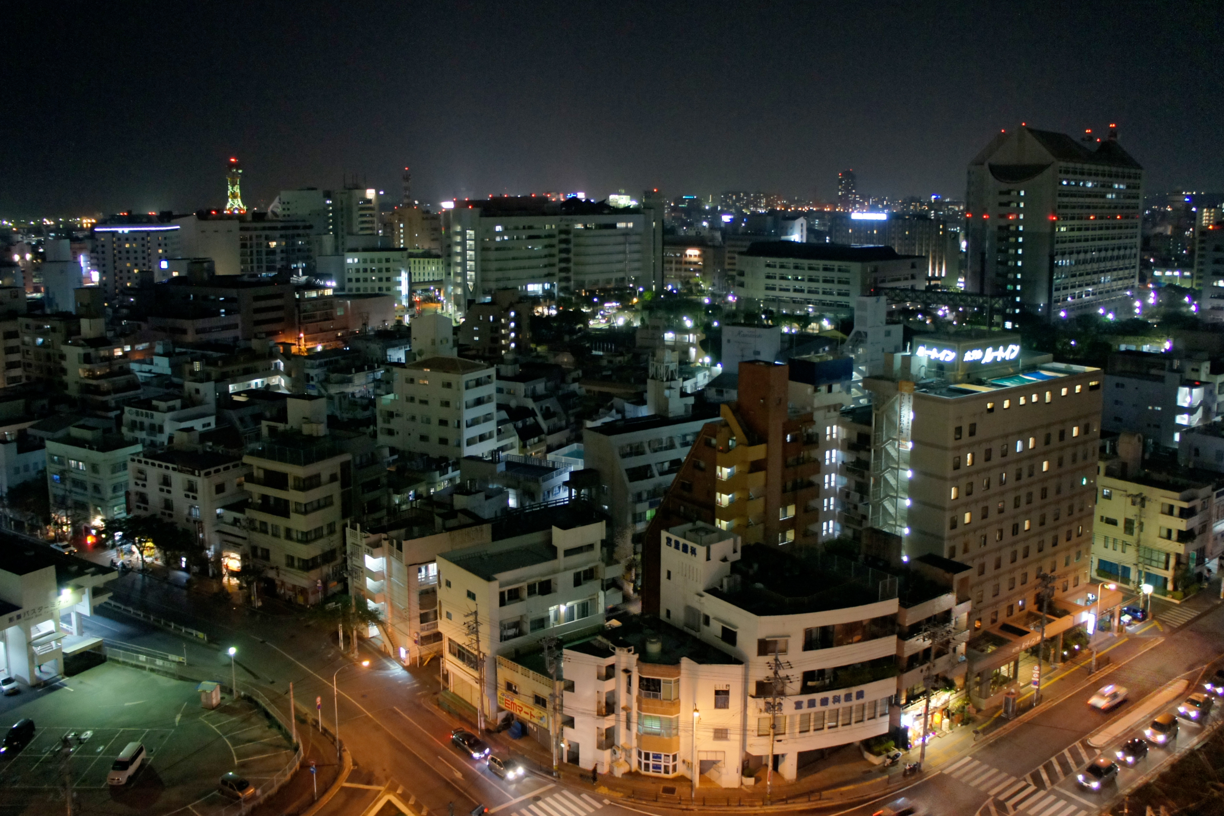 Naha city view from Asahi-machi, Naha, Okinawa prefecture, Japan